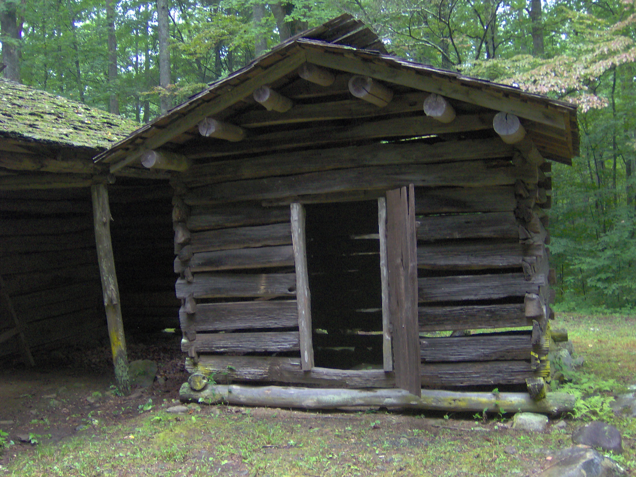 Smokehouse at the Tyson McCarter Place in the Great Smoky Mountains National Park of Sevier County, Tennessee, USA.